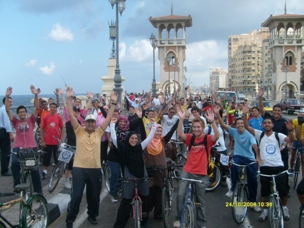 Alexandria Cycling Carnival